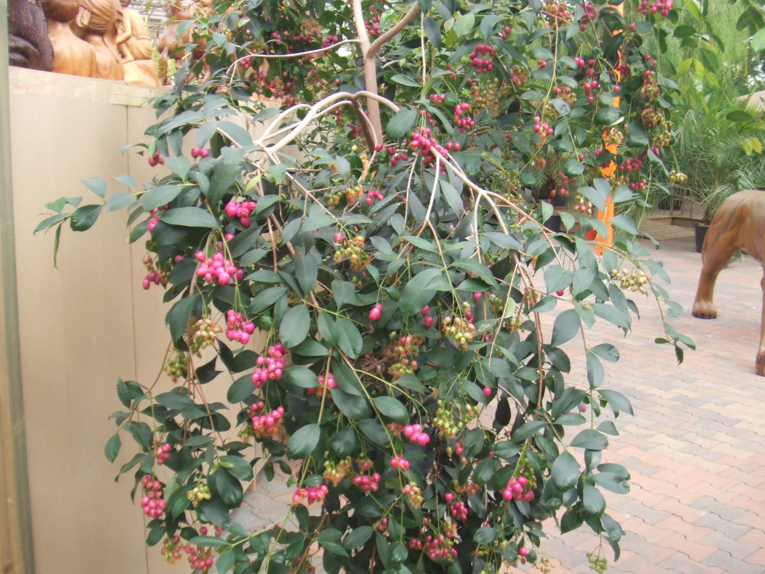 Syzygium_oleosum, picture taken at a garden center